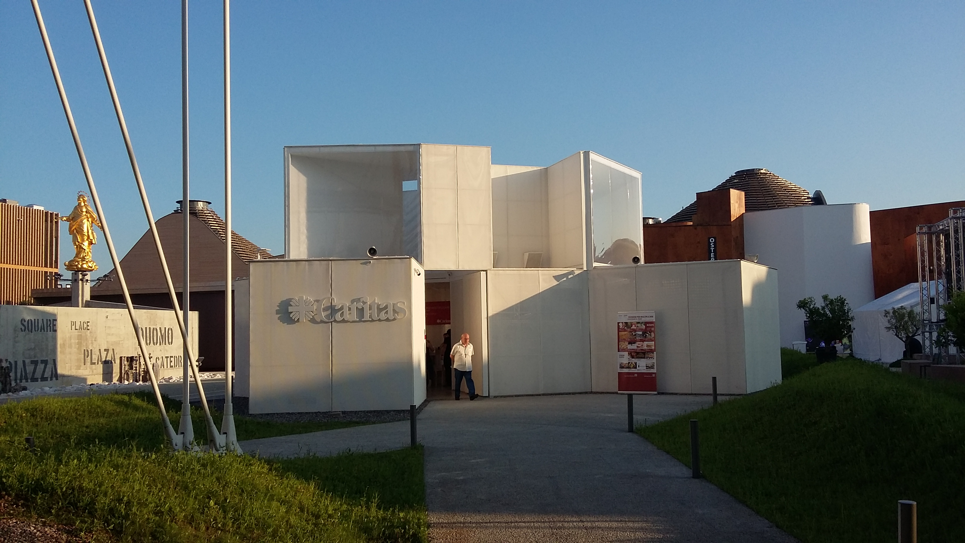 Caritas Internationalis Pavilion at Expo 2015 Milan